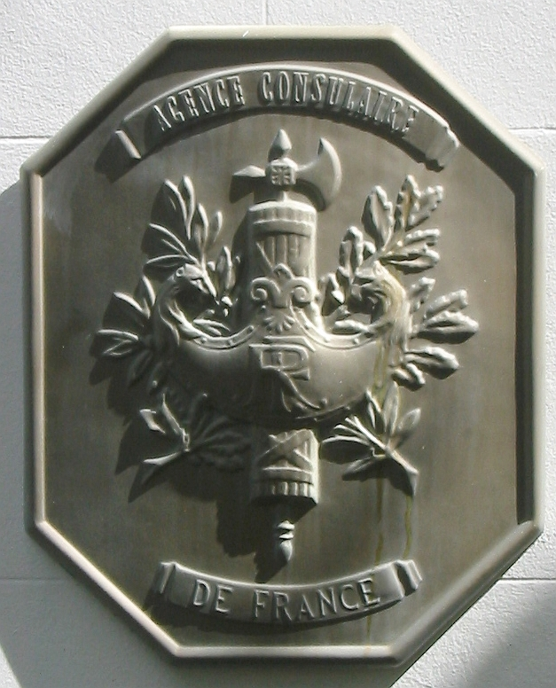 Consular agency plaque with emblem of French Republic